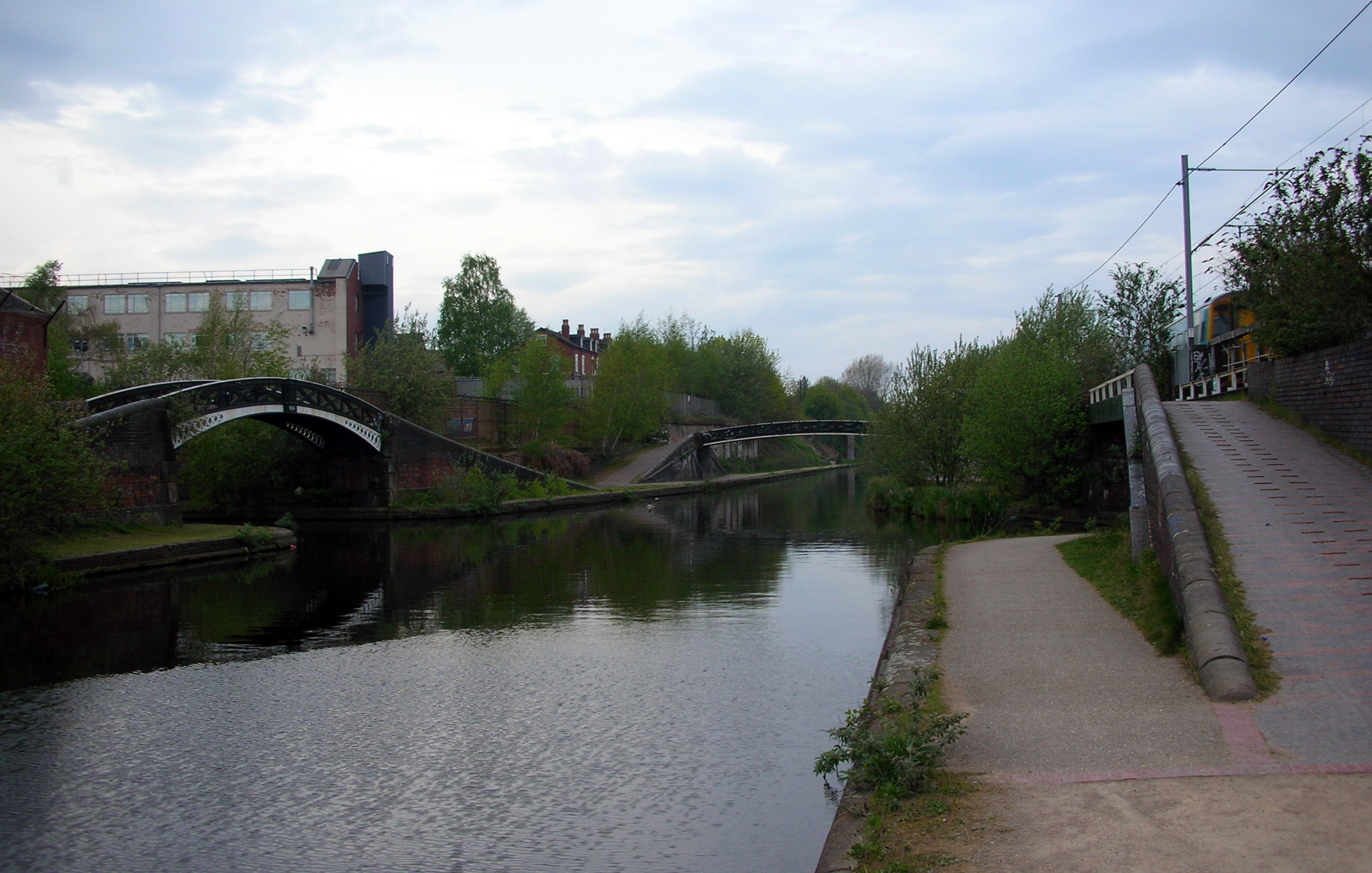 Rotten Park Junction on the BCN Main Line Canal in Birmingham, England.